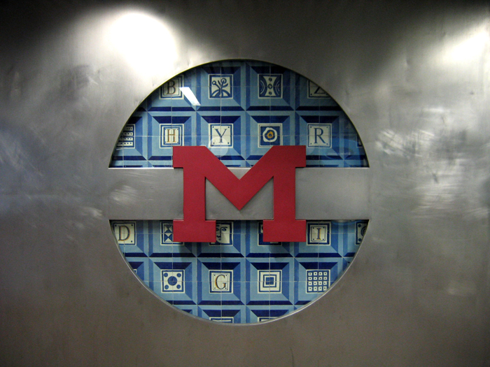 old version of the logotype of Lisbon's metro at Colégio Militar / Luz station, Lisbon, Portugal